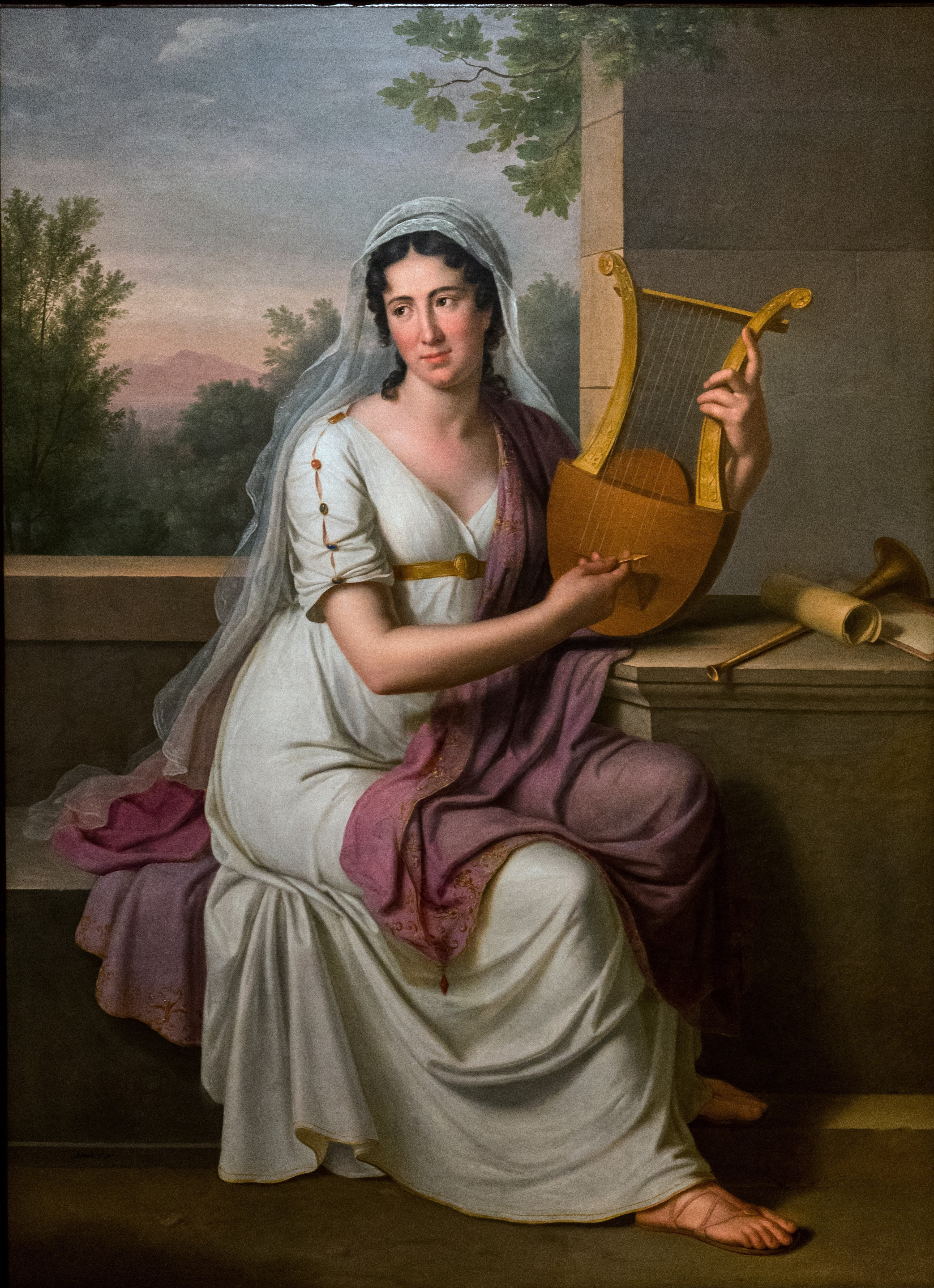 1817 portrait of Isabella Colbran in Saffo